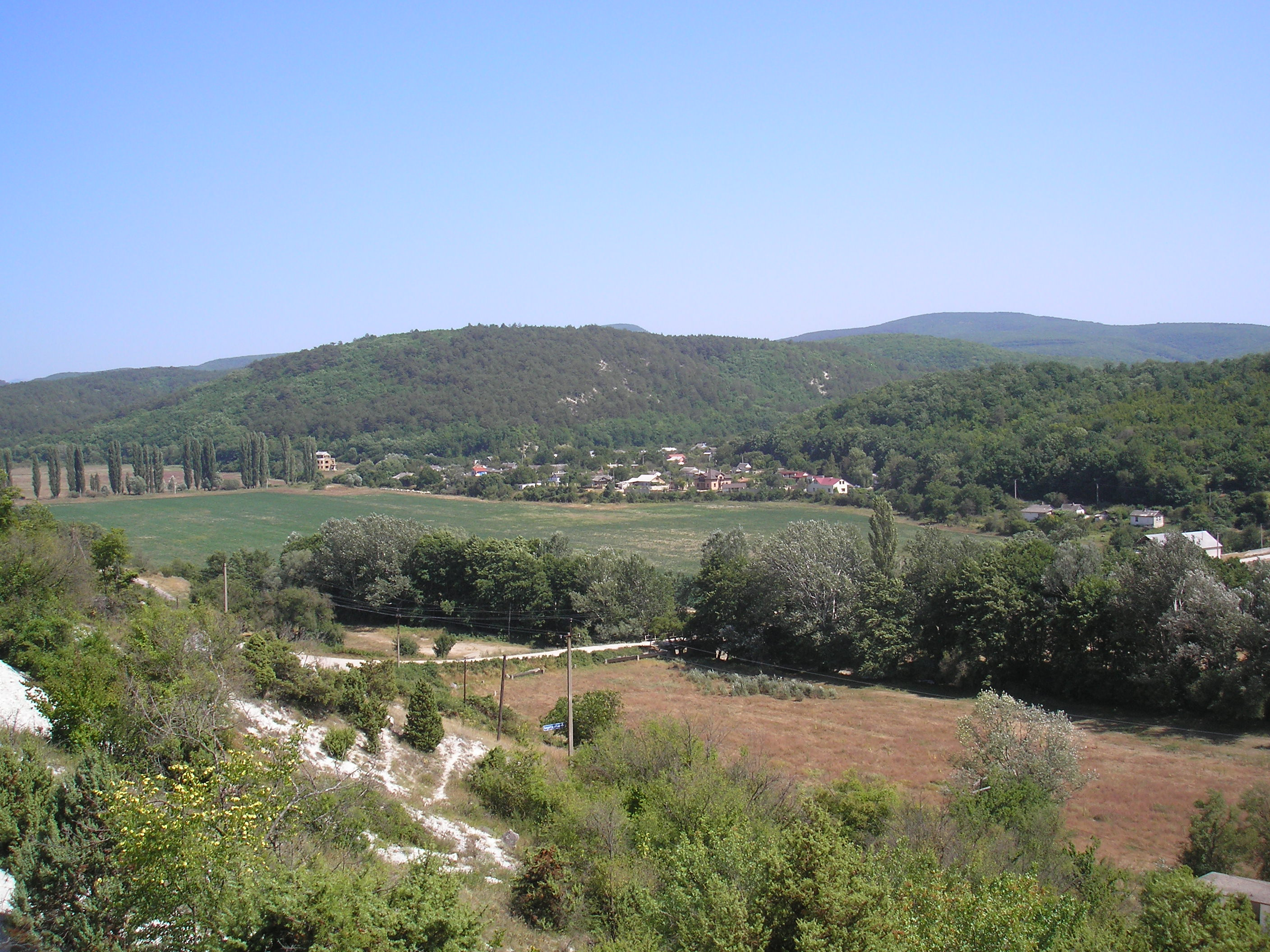 Village Bashtanovka, Bakhchisaray district, Crimea